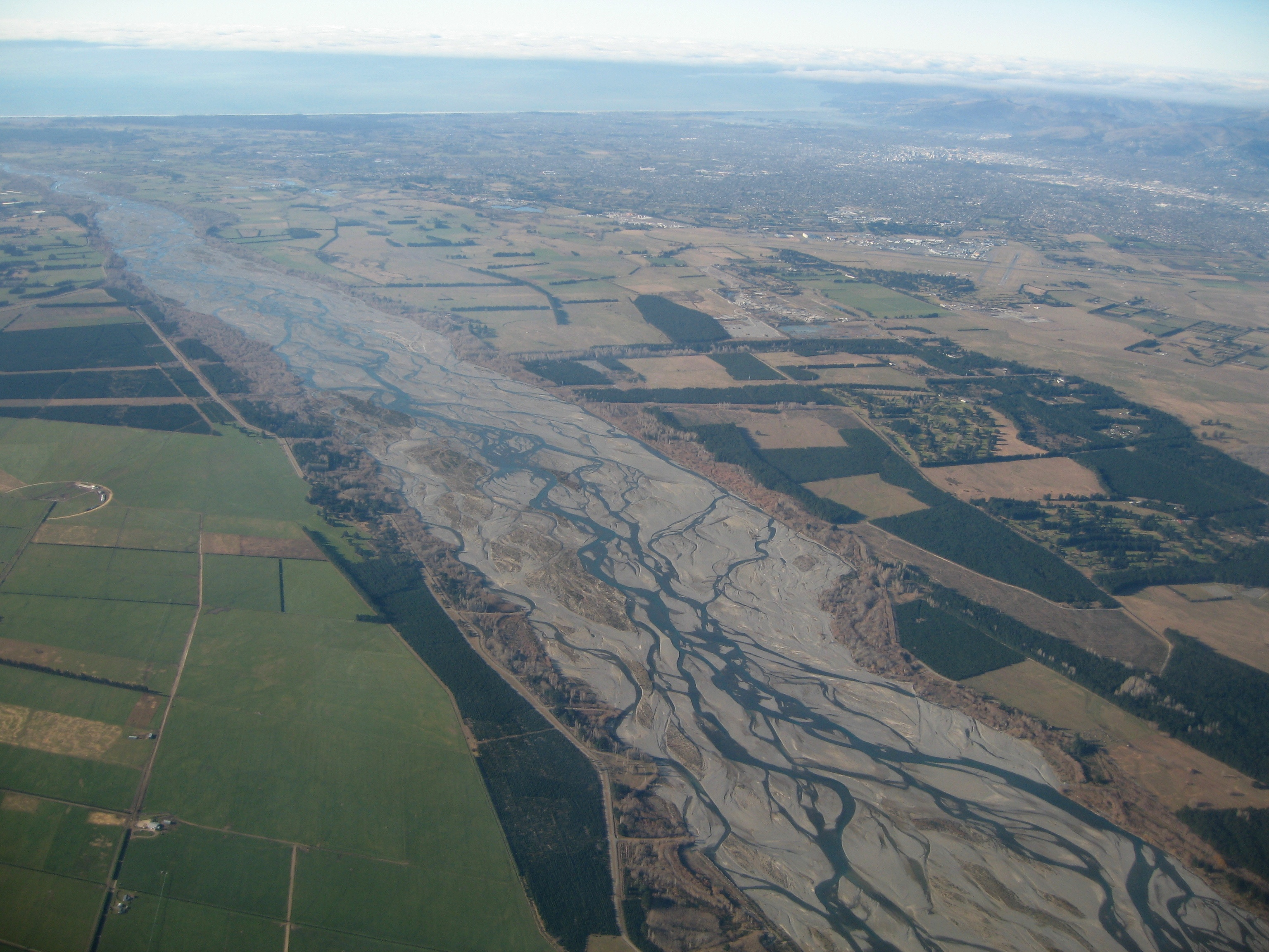 The Waimakariri River with Christchurch in the background, Canterbury, New Zealand.